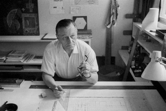 Photograph of the Finnish architect Aulis Blomstedt (1906–1979).